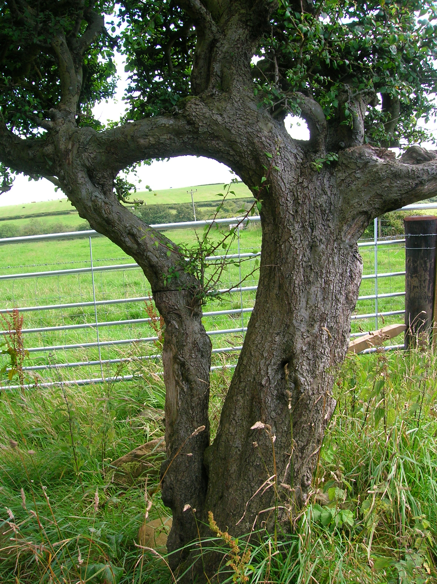 So called Husband and Wife trees at Lynncraigs Farm, Dalry, North Ayrshire, Scotland. Tree species - Blackthorn.